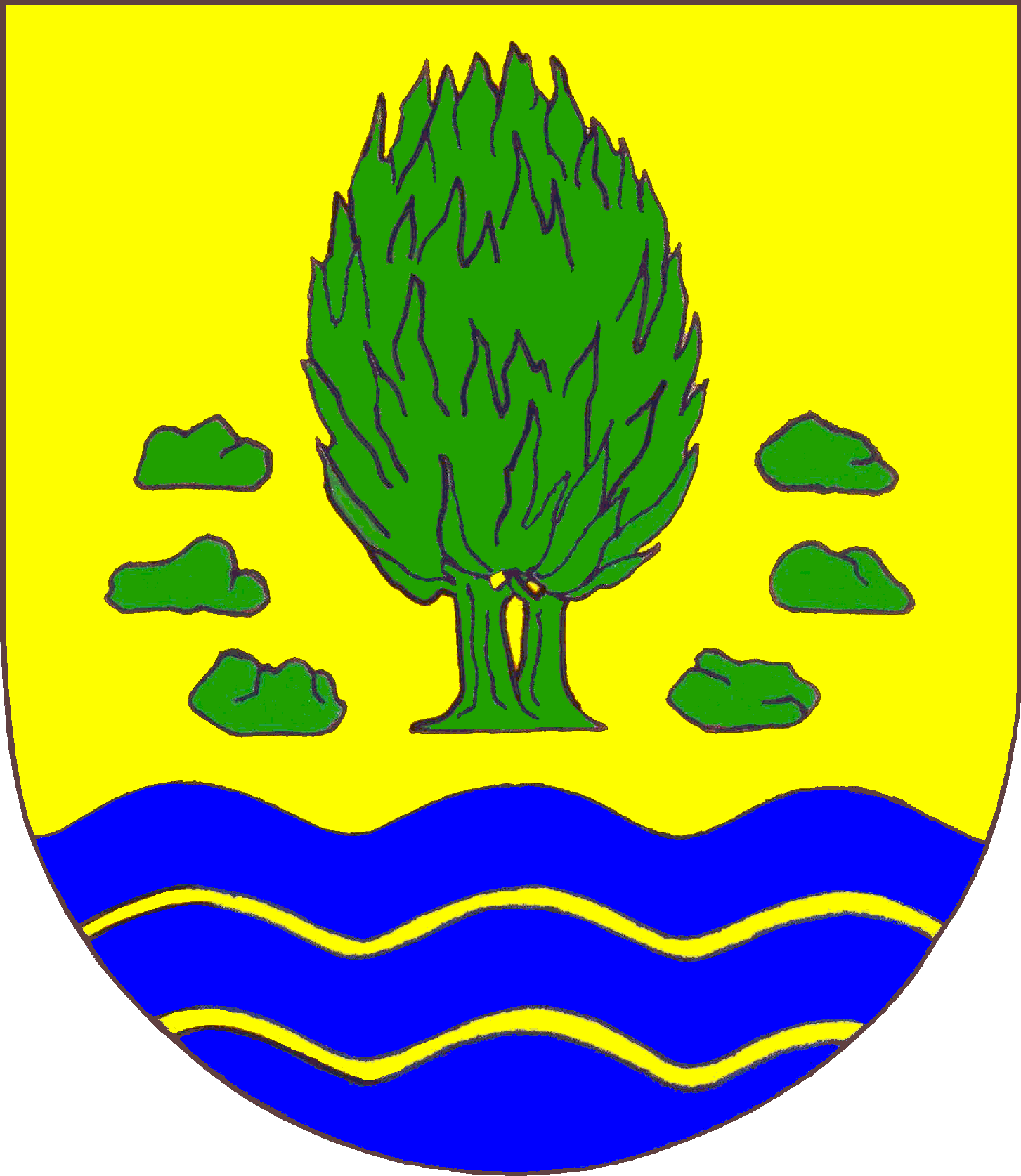 Coat of arms of the municipality Idstedt in Schleswig-Holstein, Germany.